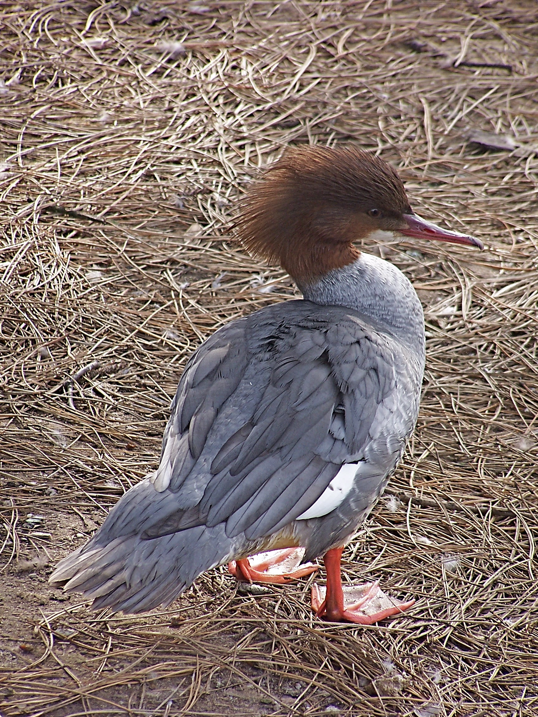 Mergus merganser (female)